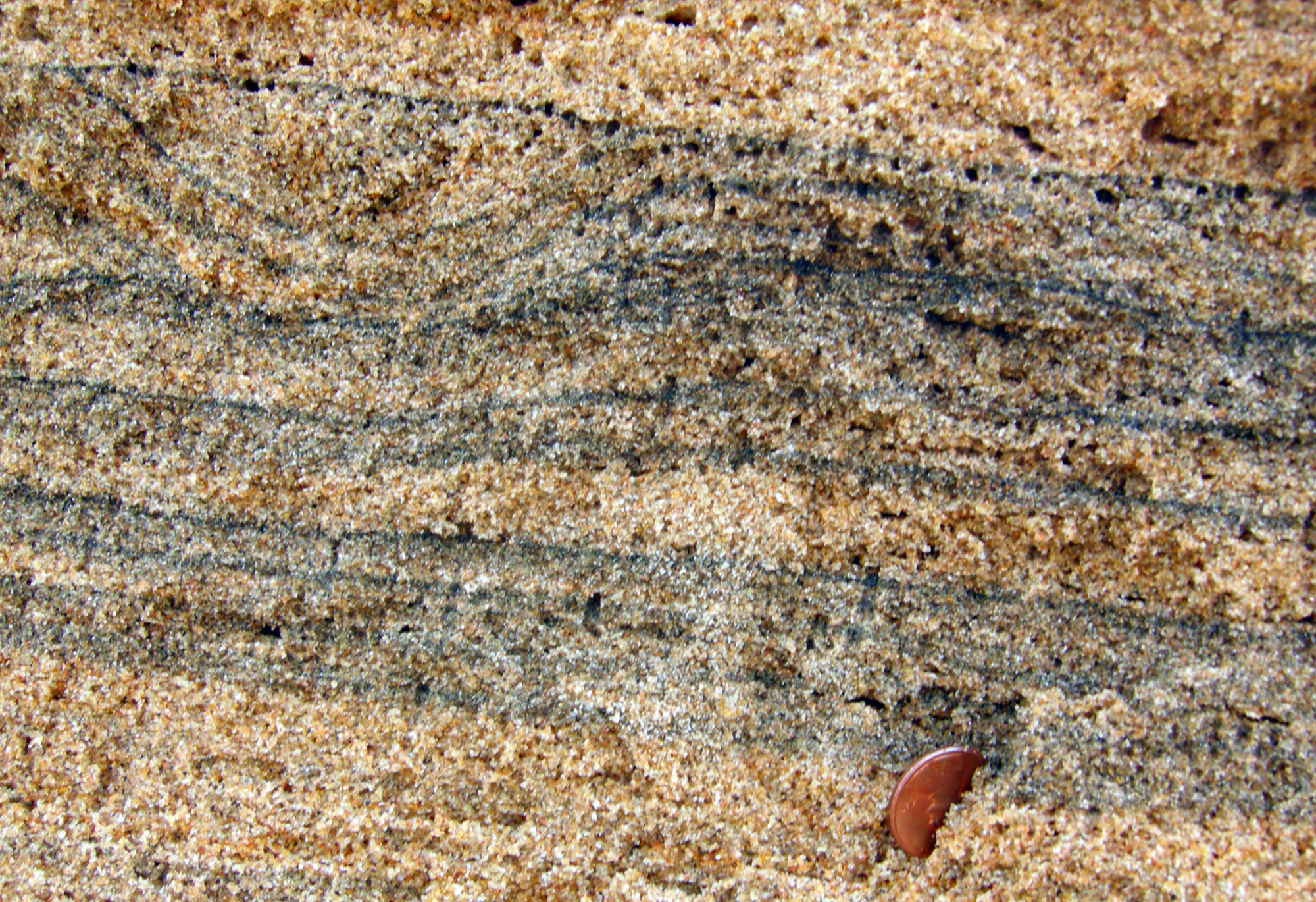 Heavy mineral layers (dark) in a quartz beach sand (Chennai, India).